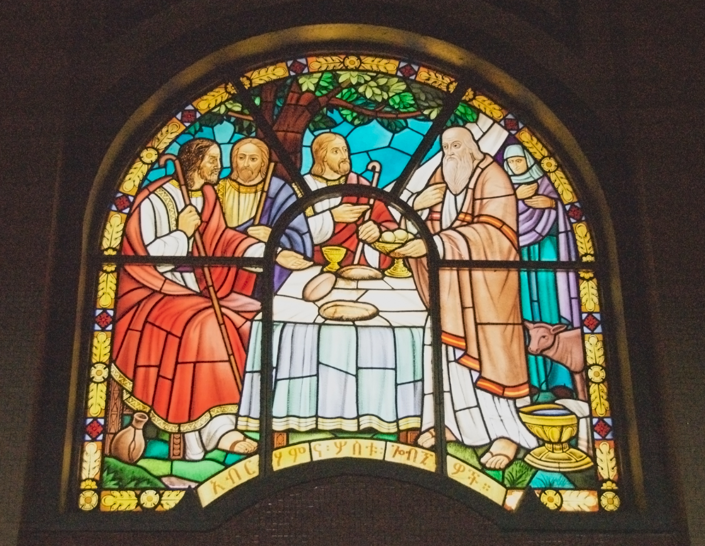 I have to confess, as it were, to having as little familiarity with the Bible as with the local phone book. I know, I should have studied the Bible as literature at my fancy college in the interest of cultural literacy. Didn't happen. Sometimes, usually as a result of art history studies, I have just enough knowledge to identify the subject of biblical scenes. I'm drawing a blank on this one. Too few people for the Last Supper. Loaves but no fish, so it's not that miracle. If I had to guess, I'd say it depicts Jesus having dinner with some old friends, but somehow that doesn't ring true as a Bible Story, particularly not one with sufficient importance to justify a huge stained-glass window. I'd be grateful if a more learned viewer who's familiar with the story depicted so beautifuly in this stained glass panel would enlighten the rest of us. The window shows three men visiting Abraham at Mamre (Genesis 18). The men are "angels" - representatives or even manifestations of God, and so in Christian tradition they became figures of the Holy Trinity. --Rabanus Flavus (talk) 12:09, 13 December 2016 (UTC)